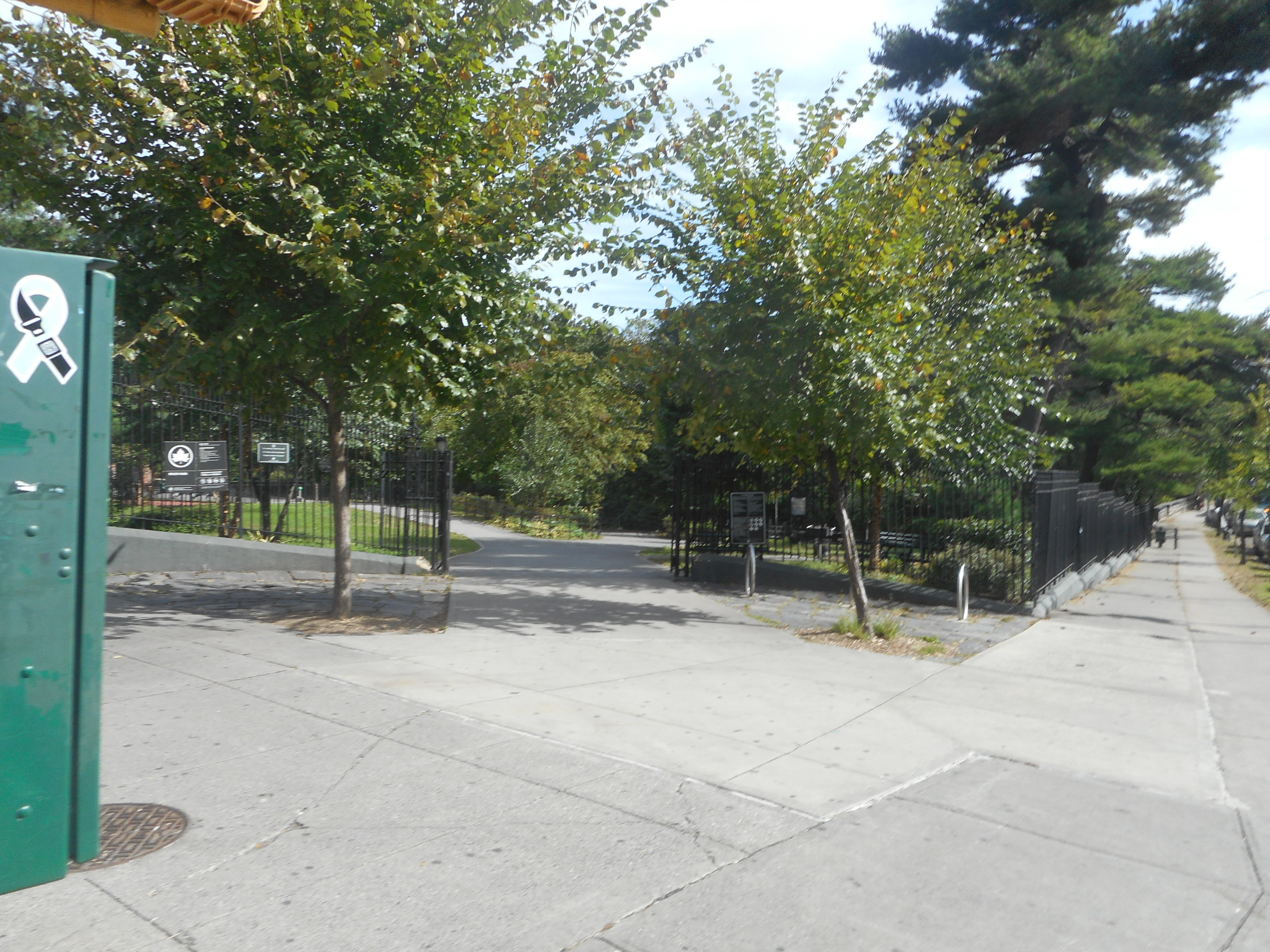 A pedestrian park entrance to Bronx Park, specifically the River Park on the northeast corner of Boston Road and East 180th Street in the West Farms section of The Bronx, New York City. Taken during an attempt to capture the site of the former 180th Street–Bronx Park elevated railway station on the IRT White Plains Road Line. The entrance is one block south of what is now a pedestrian exclusive (but two-lane car wide) entrance to The Bronx Zoo at Bronx Park South.NOTE: While this segment of Boston Road is historically part of the original Boston Post Road, it is not part of U.S. Route 1.